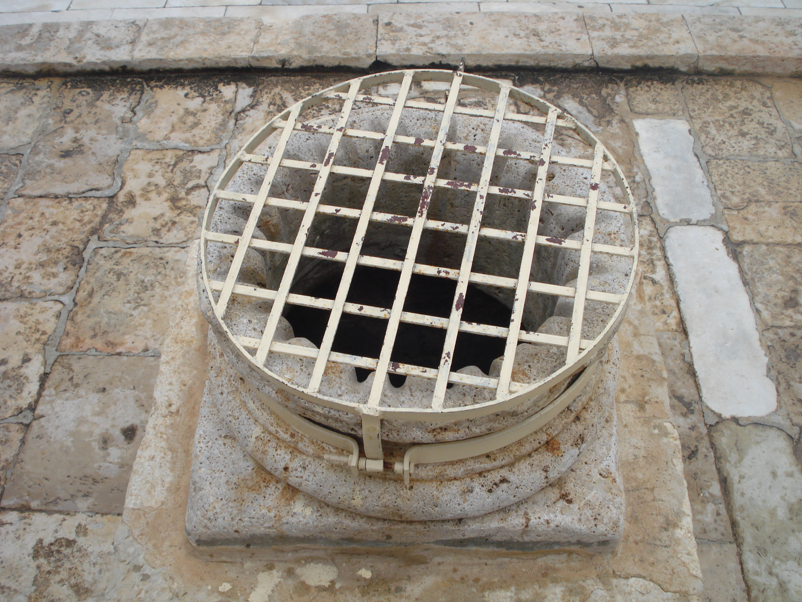 Water well in Great Mosque of Kairouan, Kairouan, Tunisia